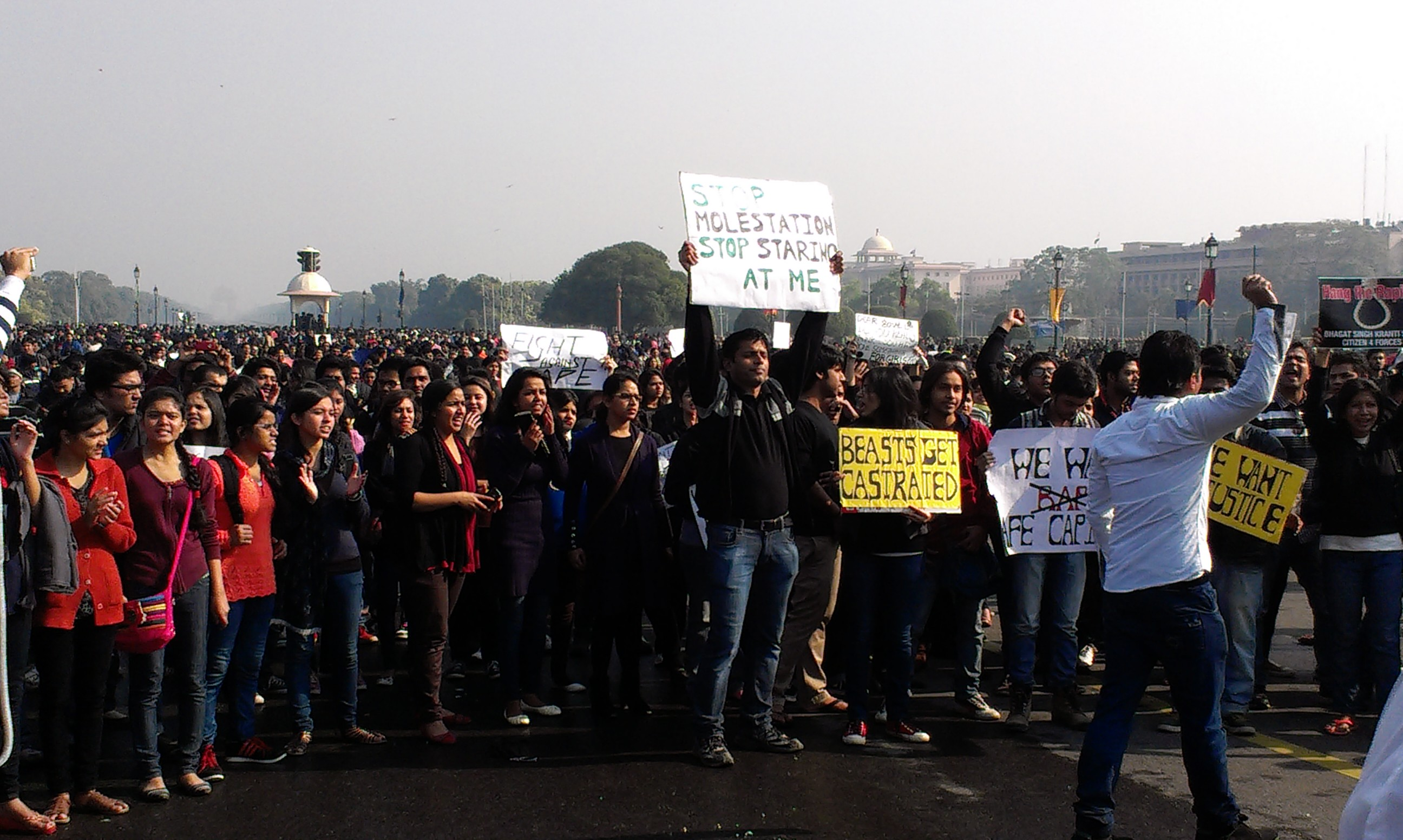 December 22, students protest the rising violence against women, Raisina Hill/ Rajpath